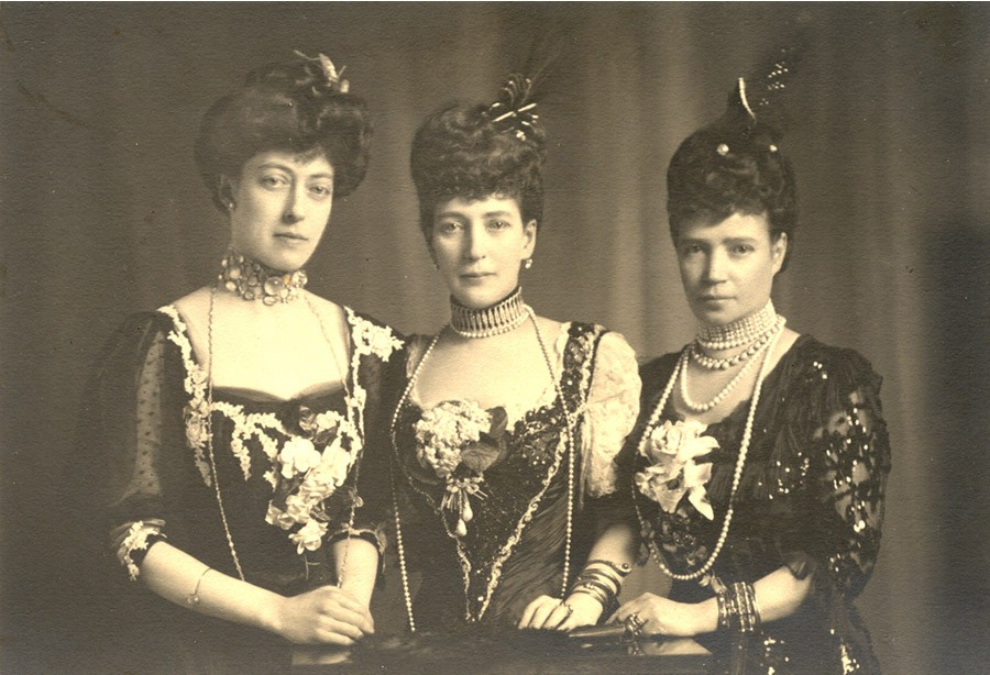 Photo by unknown of two of the daughters of King Christian IX of Denmark, Queen Alexandra of the United Kingdom (center) and Empress Maria Feodorovna of Russia (Dagmar), (right), along with Queen Alexandra's daughter Princess Victoria (left). London, 1903. Photo comed from my collection and was scanned by me. Mrlopez2681 17:30, 10 November 2006 (UTC)